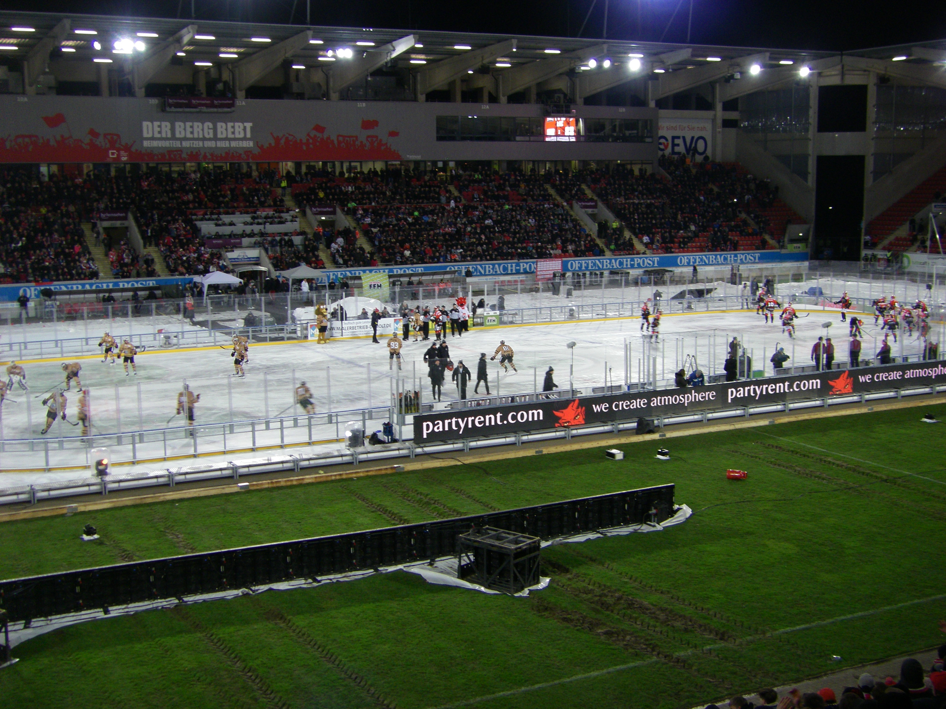 Ice hockey match between EC Bad Nauheim and Löwen Frankfurt in Sparda-Bank-Hessen-Stadion, home of Kickers Offenbach, on December 14, 2019.